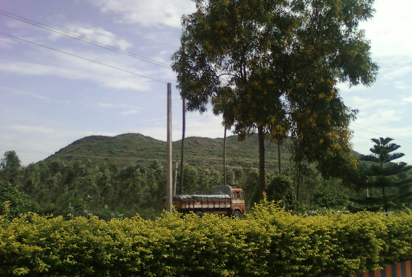 View of eastern ghats at Anandapuram, Visakhapatnam district